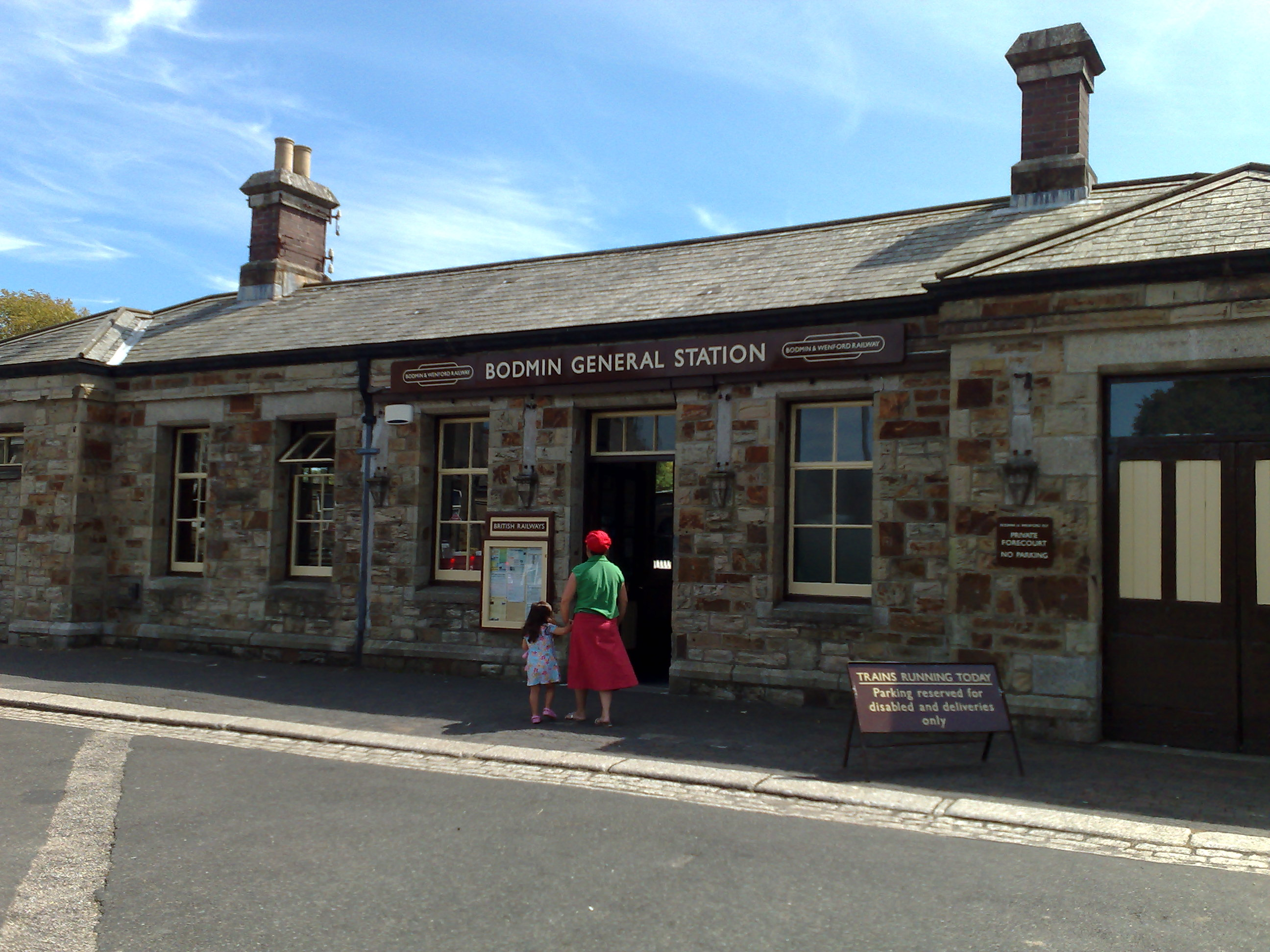 Bodmin General railway station